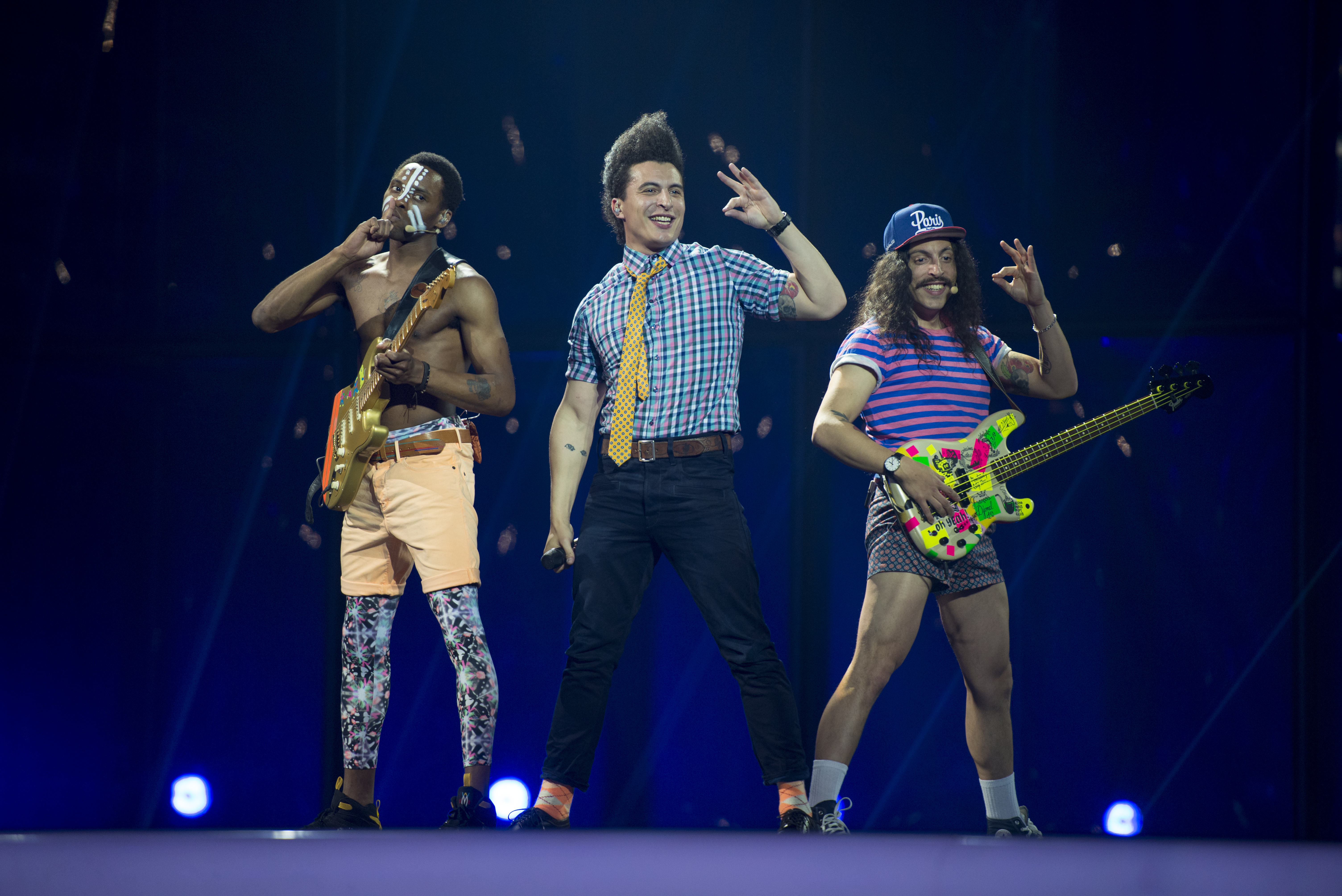 Twin Twin representing France with the song "Moustache" during the first dress rehearsal of the final of the Eurovision Song Contest 2014 Copenhagen. (Help translate this text)